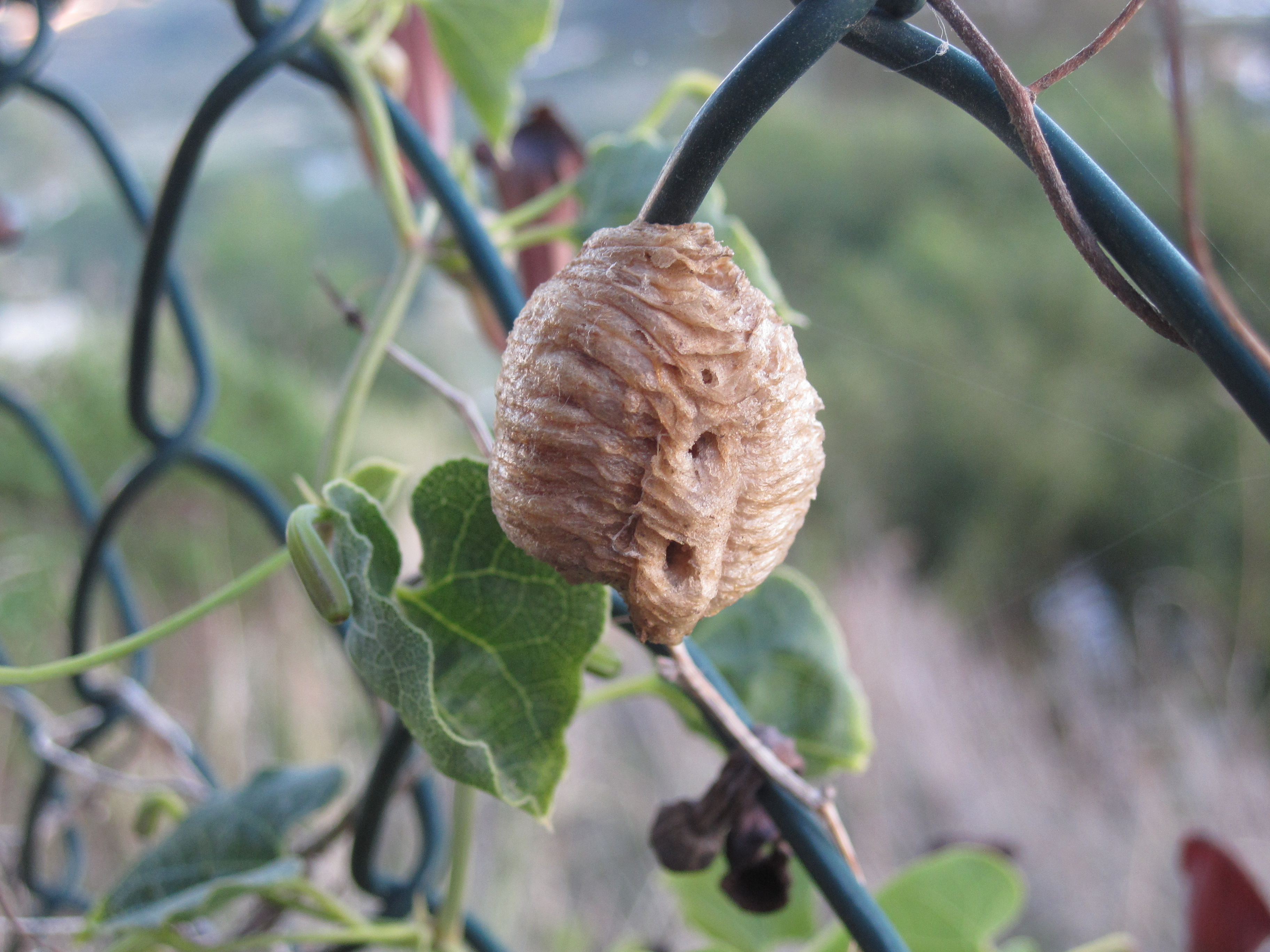 Mantis ootheca on fence, Cala de Mijas, Spain